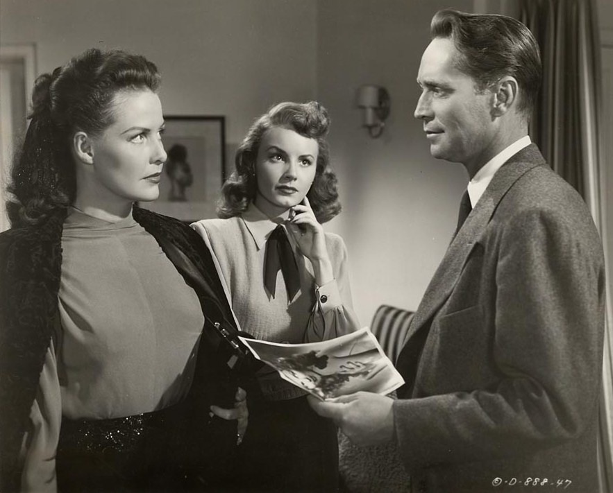 L. to R. : Janis Carter, Janet Blair & Franchot Tone in I Love Trouble - cropped screenshot (original image : see source).